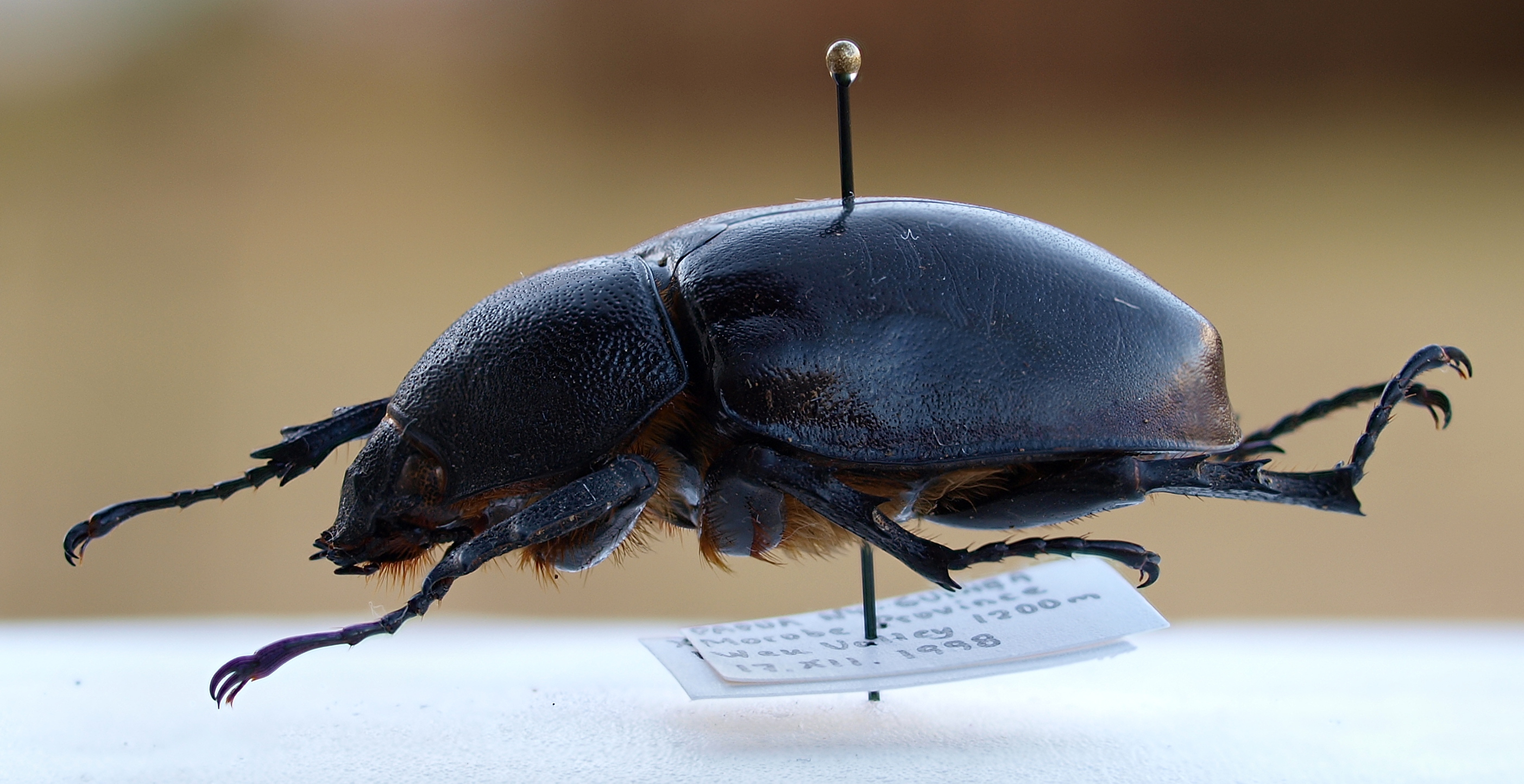 Xylotrupes gideon, female